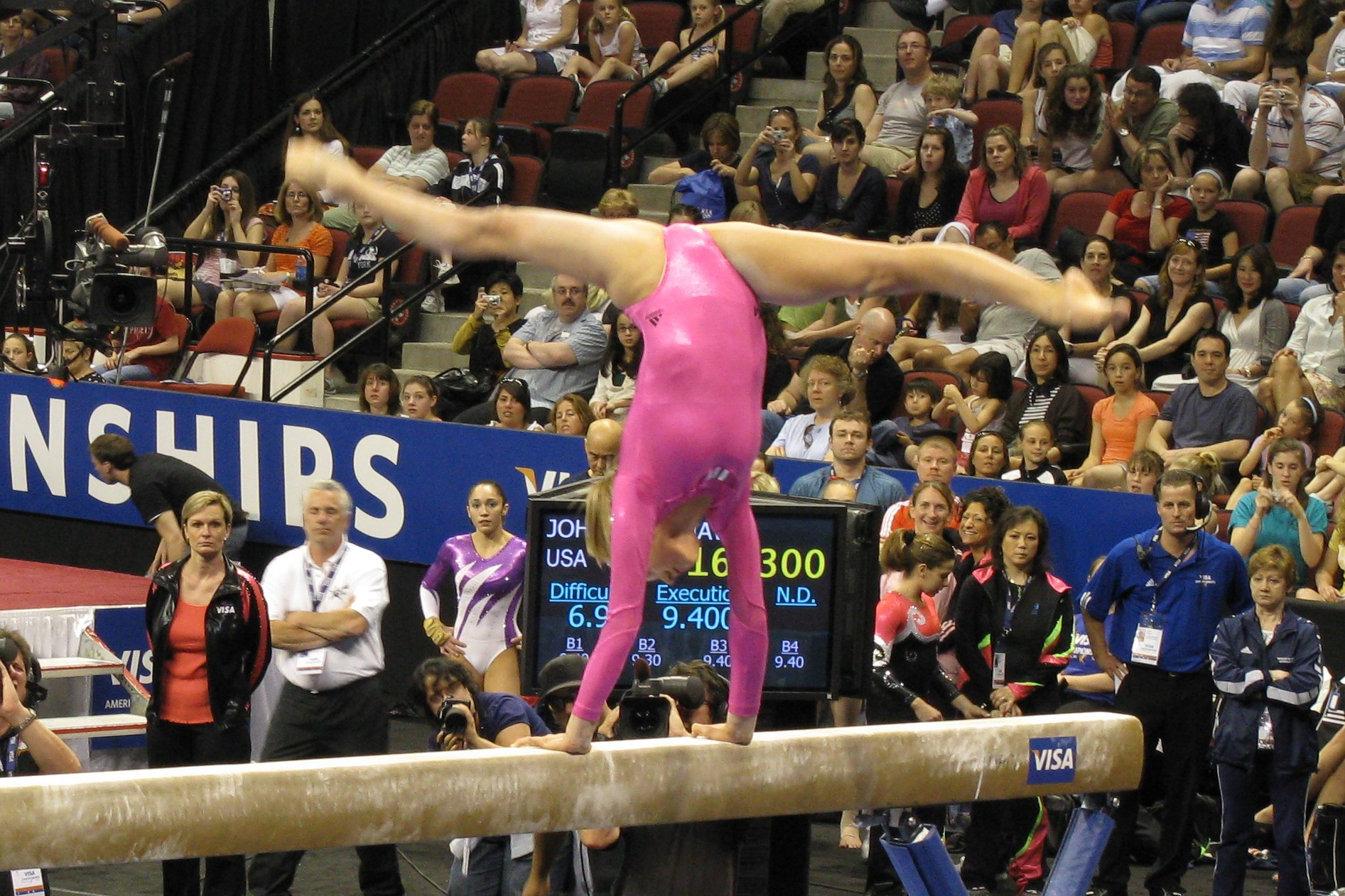 Nastia Liukin on the balance beam at the 2008 U.S. Gymnastics Championships in Boston, MA